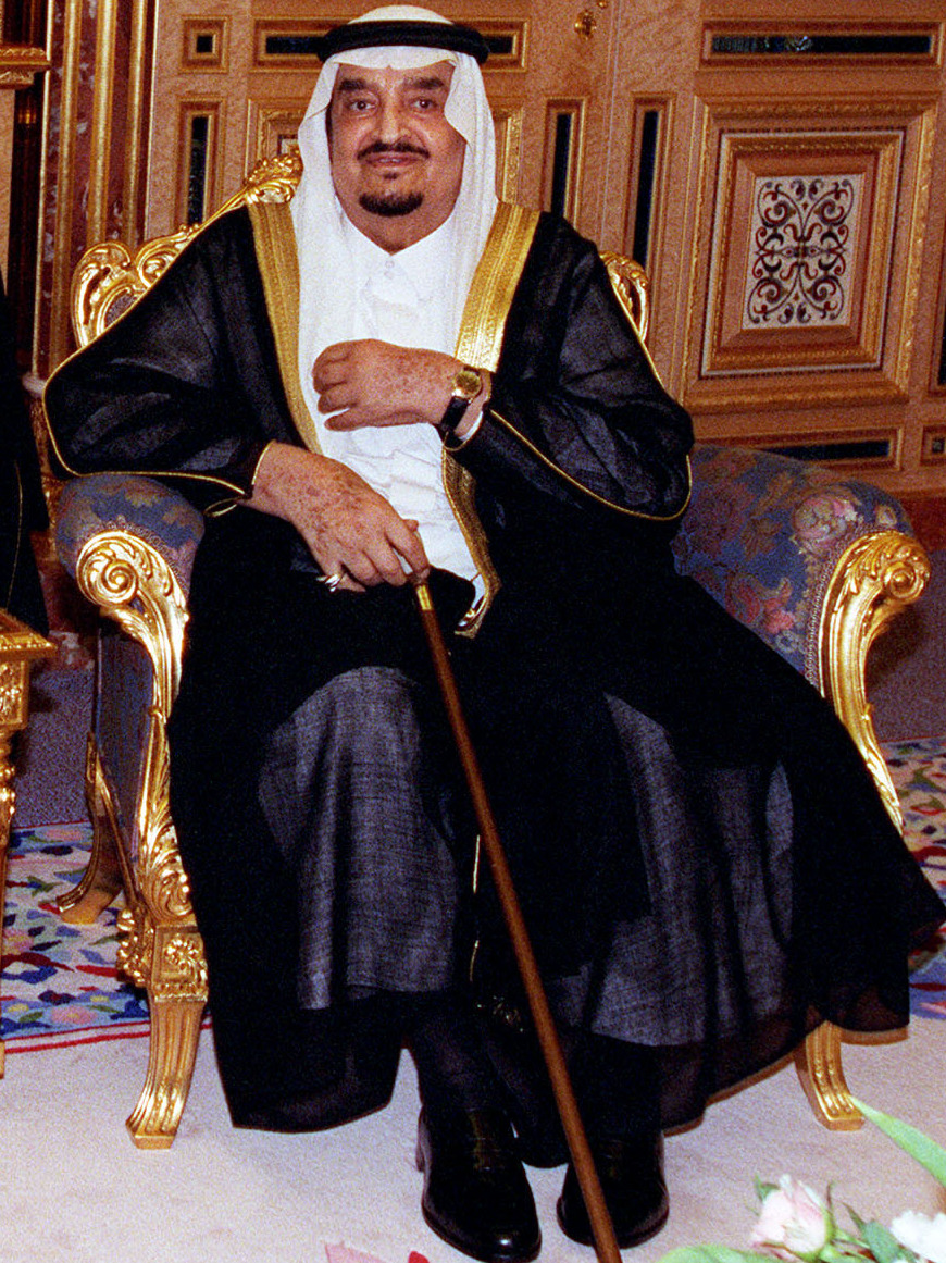 Secretary of Defense William S. Cohen (left) meets with King Fahd bin Abd al-Aziz Al Saud (right) at Al-Yamamah Palace, Riyadh, Saudi Arabia, on Oct. 13, 1998. Cohen is in the Persian Gulf region to visit with U.S. troops and heads of state in the Gulf countries.